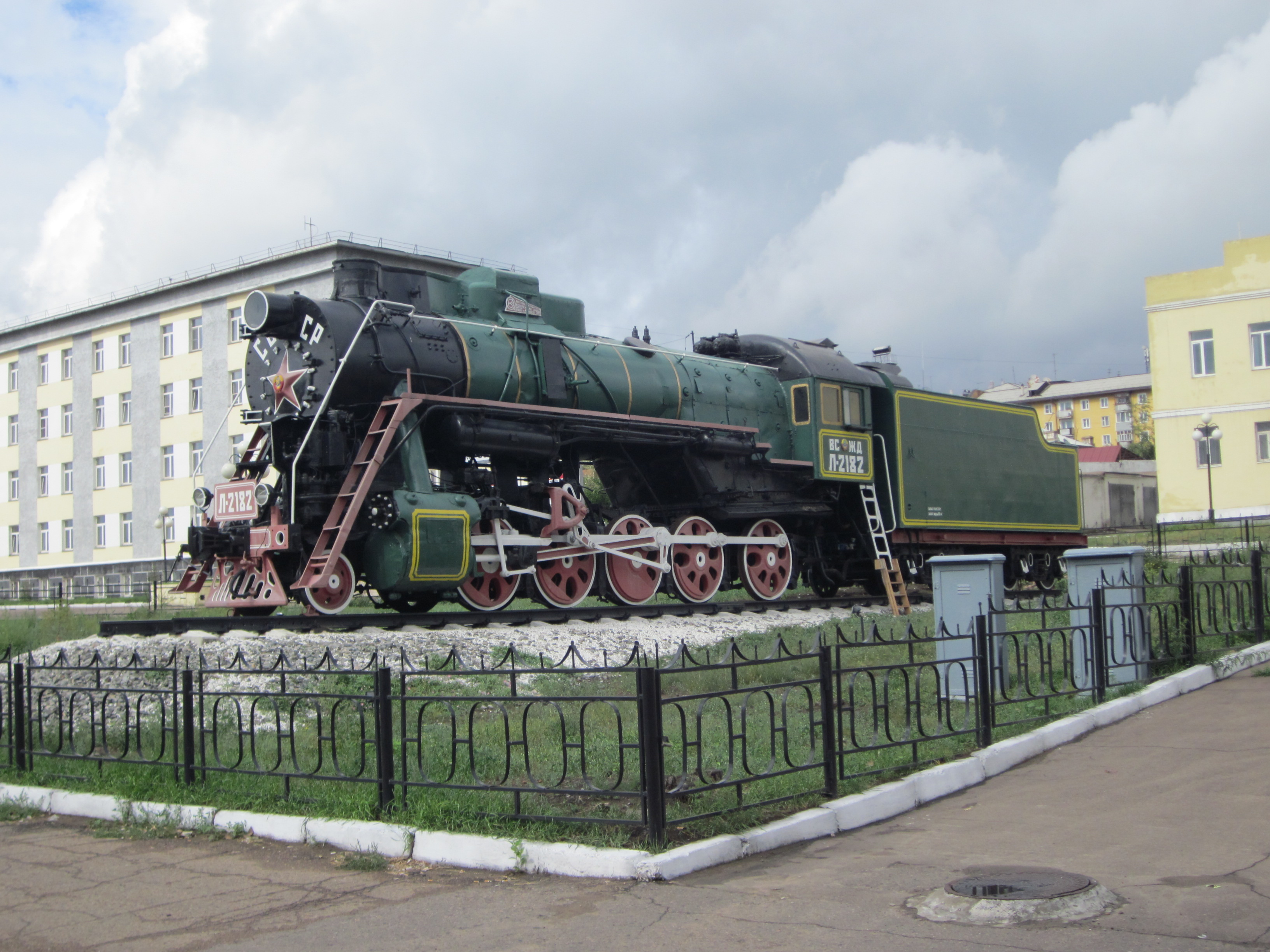 Old locomotive in Ulan-Ude, Russia